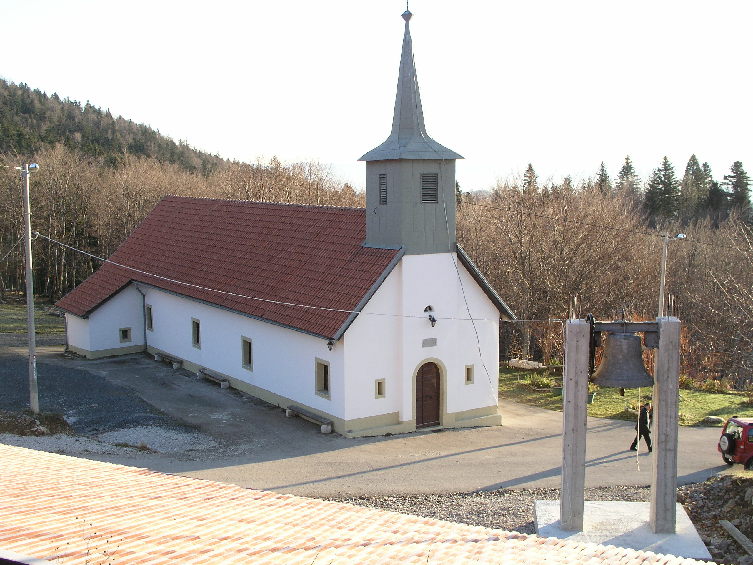 Church of Mother Mary of Krasno